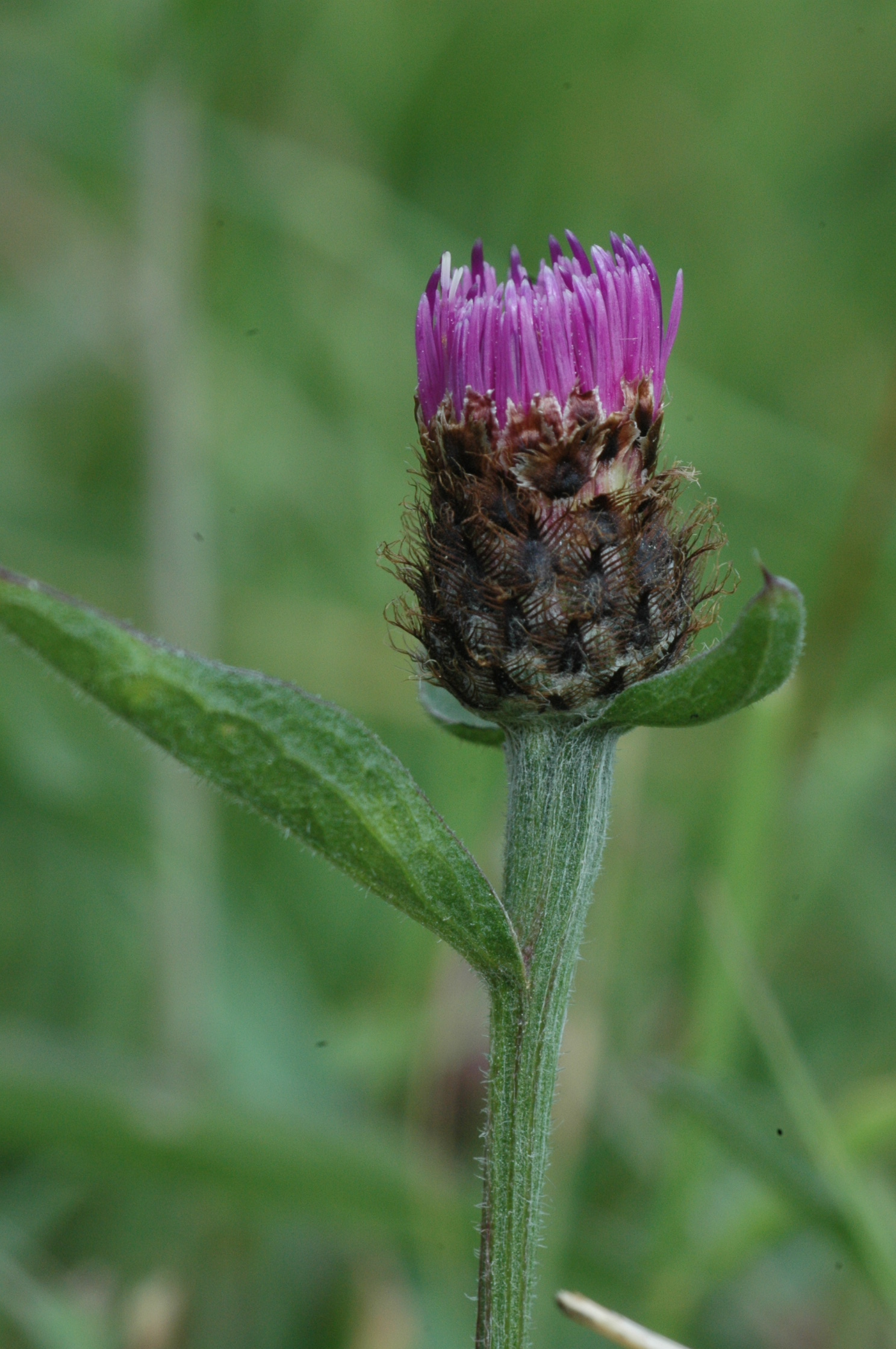 Centaurea nigra - Ploufragan-France june 2004 - flower